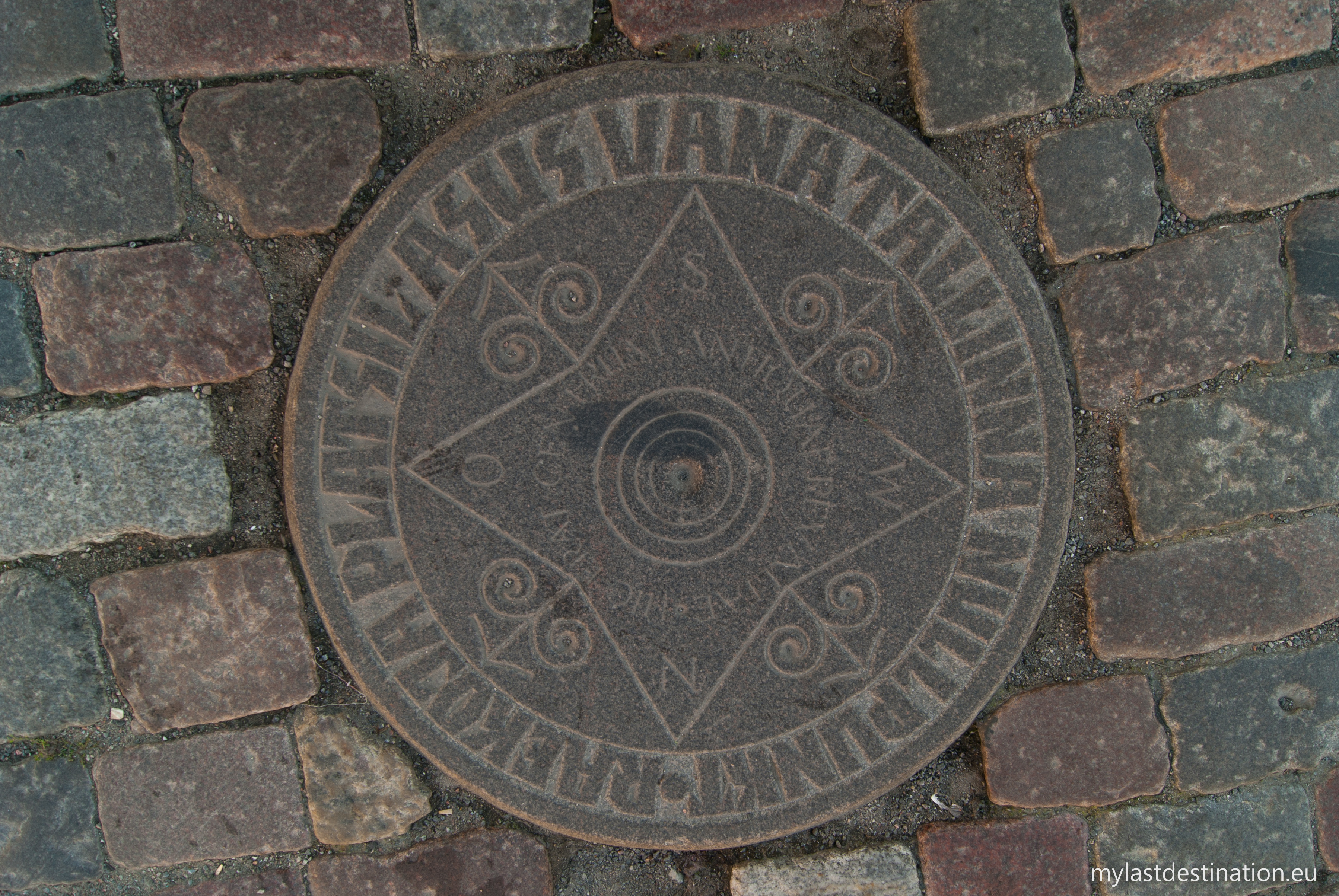 Old Tallinn's symbolic geographic zero point on Town Hall Square.